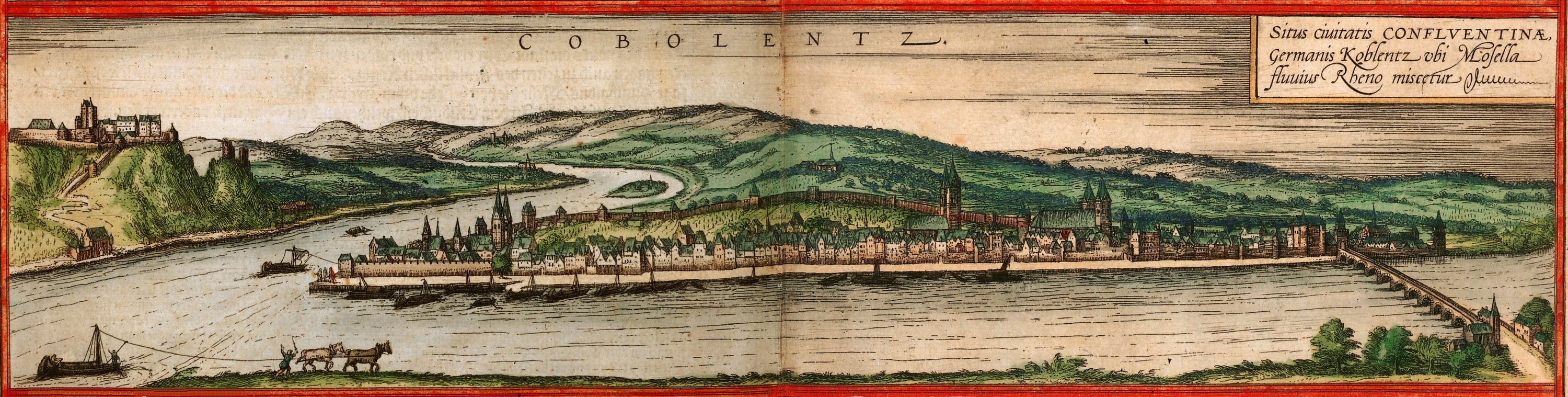 view of Koblenz